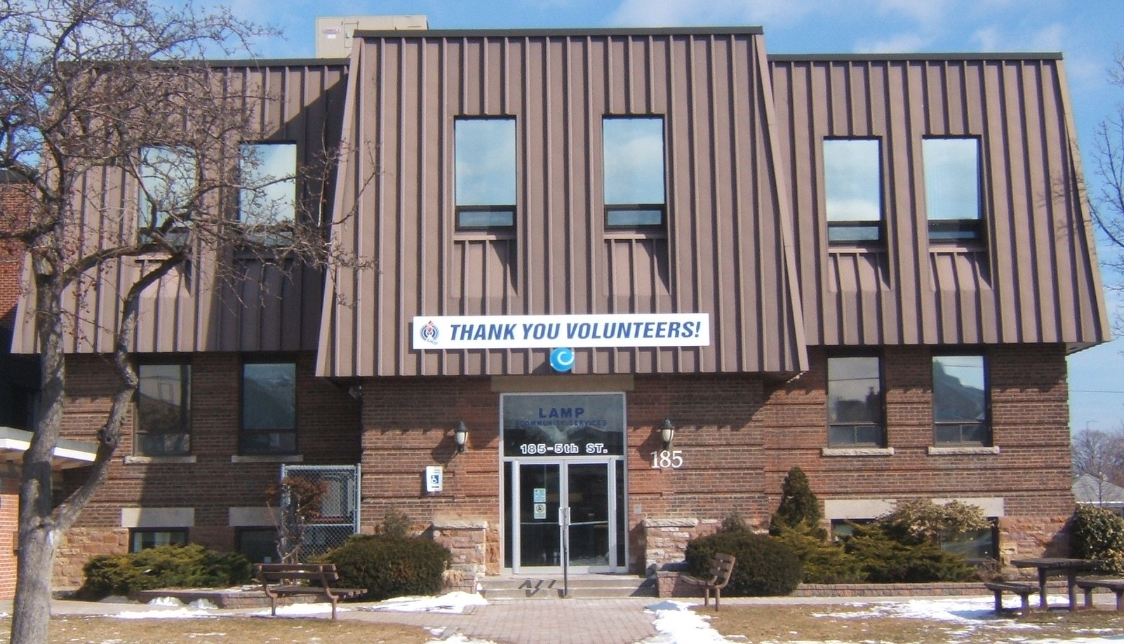 Former Town Hall, New Toronto (now LAMP)